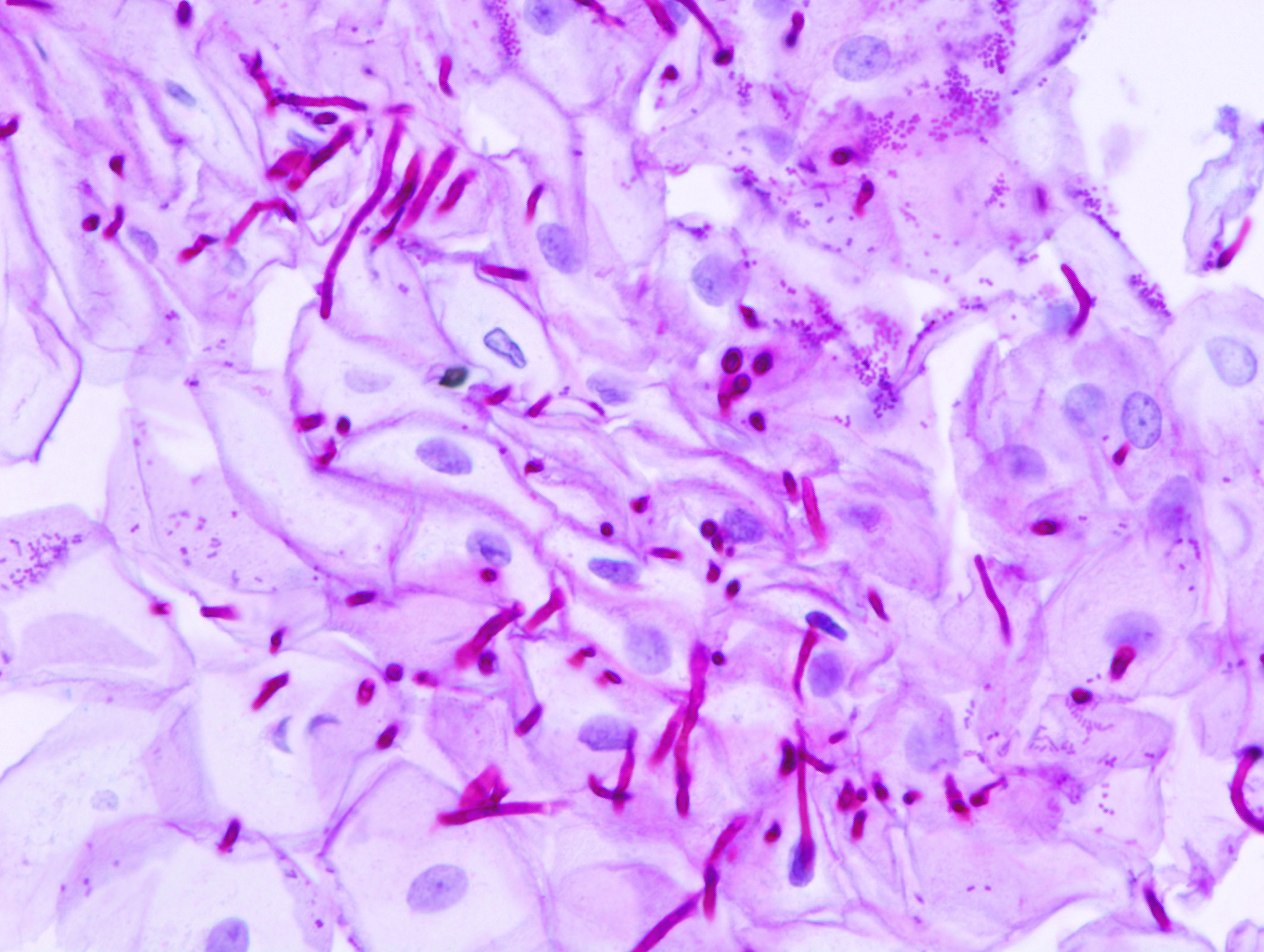 Esophageal candidiasis stained by periodic acid-Schiff procedure